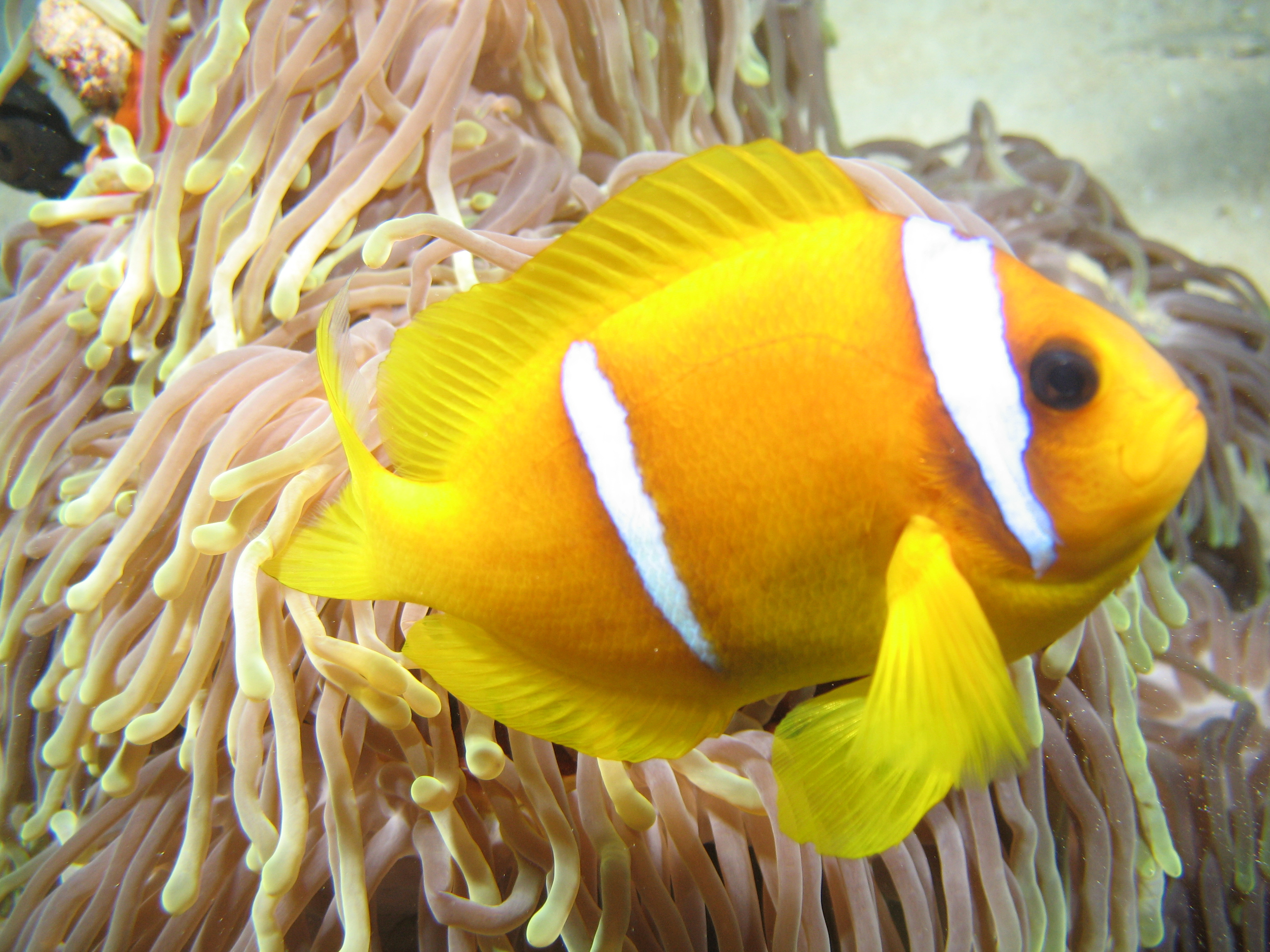 Red Sea Clownfish aka. Two-banded Anemonefish (Amphiprion bicinctus) near Marsa Alam, Egypt.